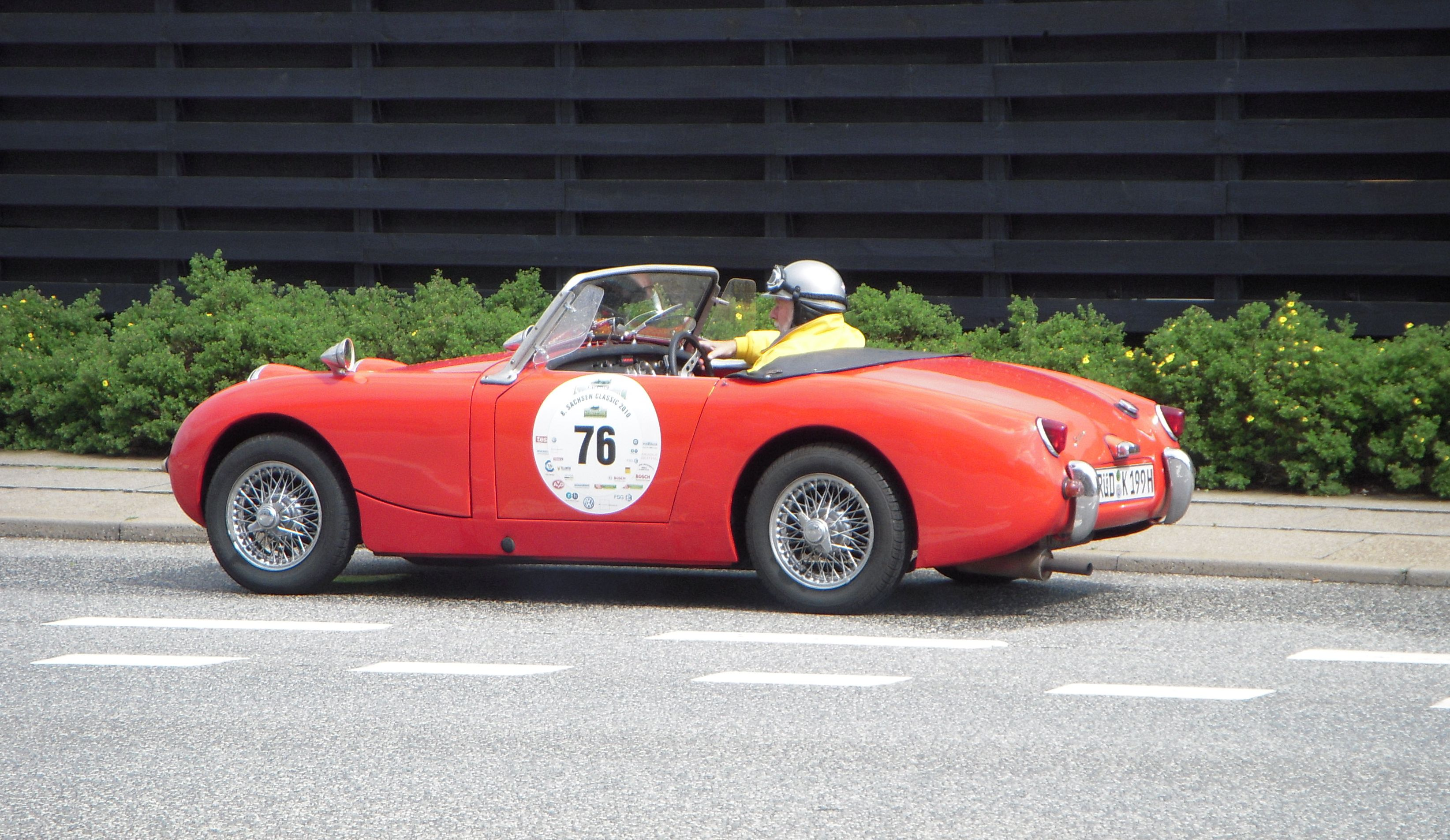 Austin Healey Sprite in Frederikshavn, Denmark. June 17, 2012